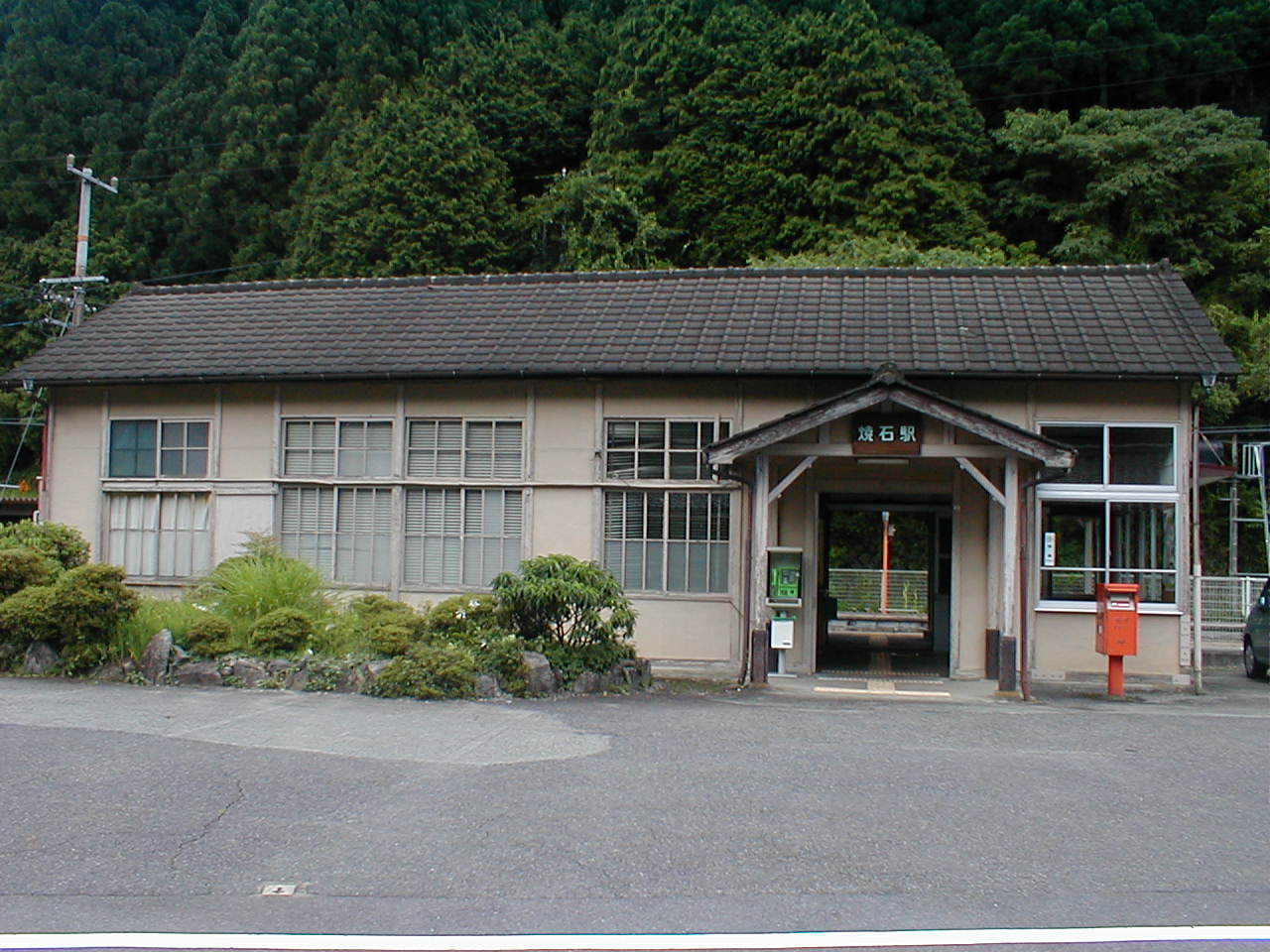 Yakeishi Station on the JR Central Takayama Main Line